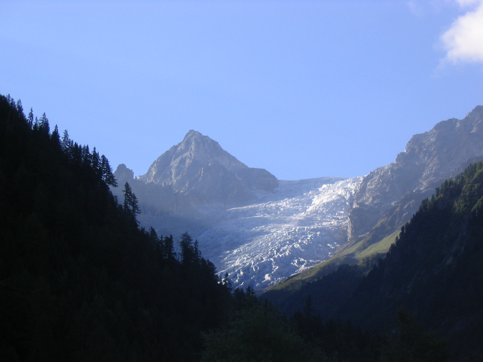 Trient glacier, picture taken from Trient (Switzerland). The mountain in the middle is the Petite Pointe d'Orny (3187 metres). The 2793 metres high mountain pass Col des Ecandies lies between this summit and the summit of the Pointe des Ecandies (2873 metres) (on the left)